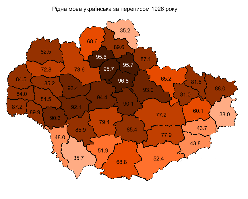 Percentage of ukrainian native speakers by region (okrug) of Ukrainian SSR, 1926 census